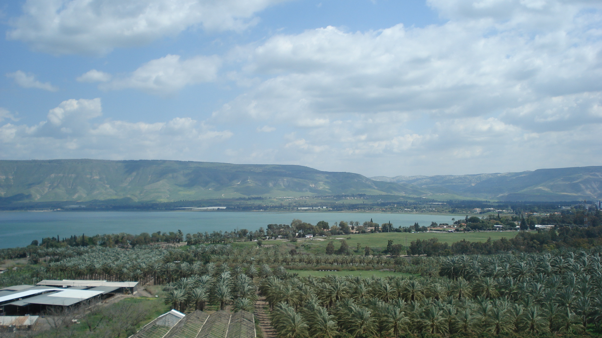 Observation to the Kinneret from the south